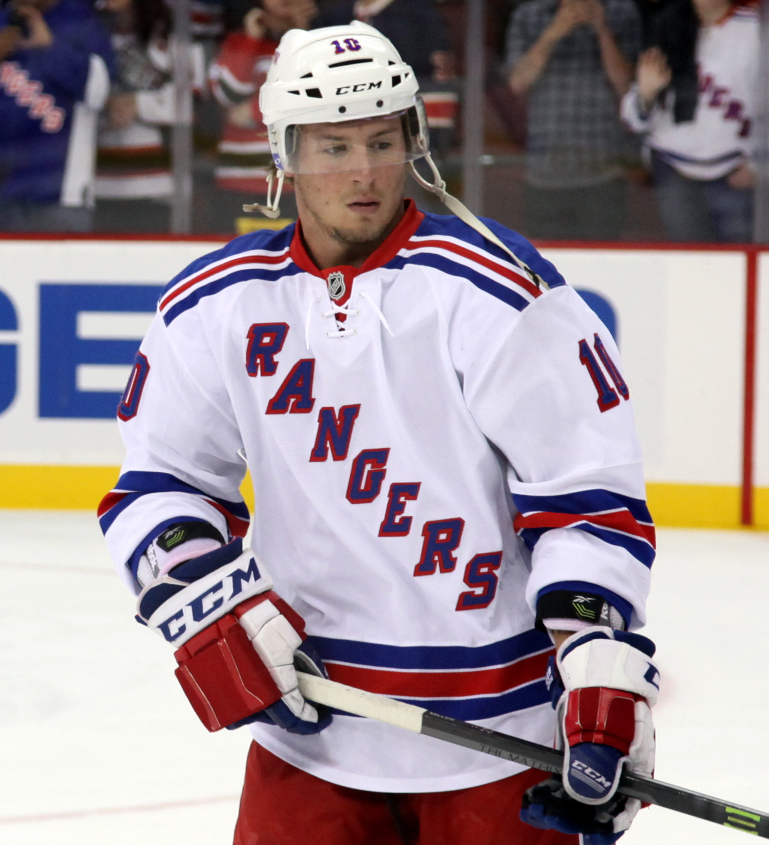 Miller as a Ranger in October 2014.